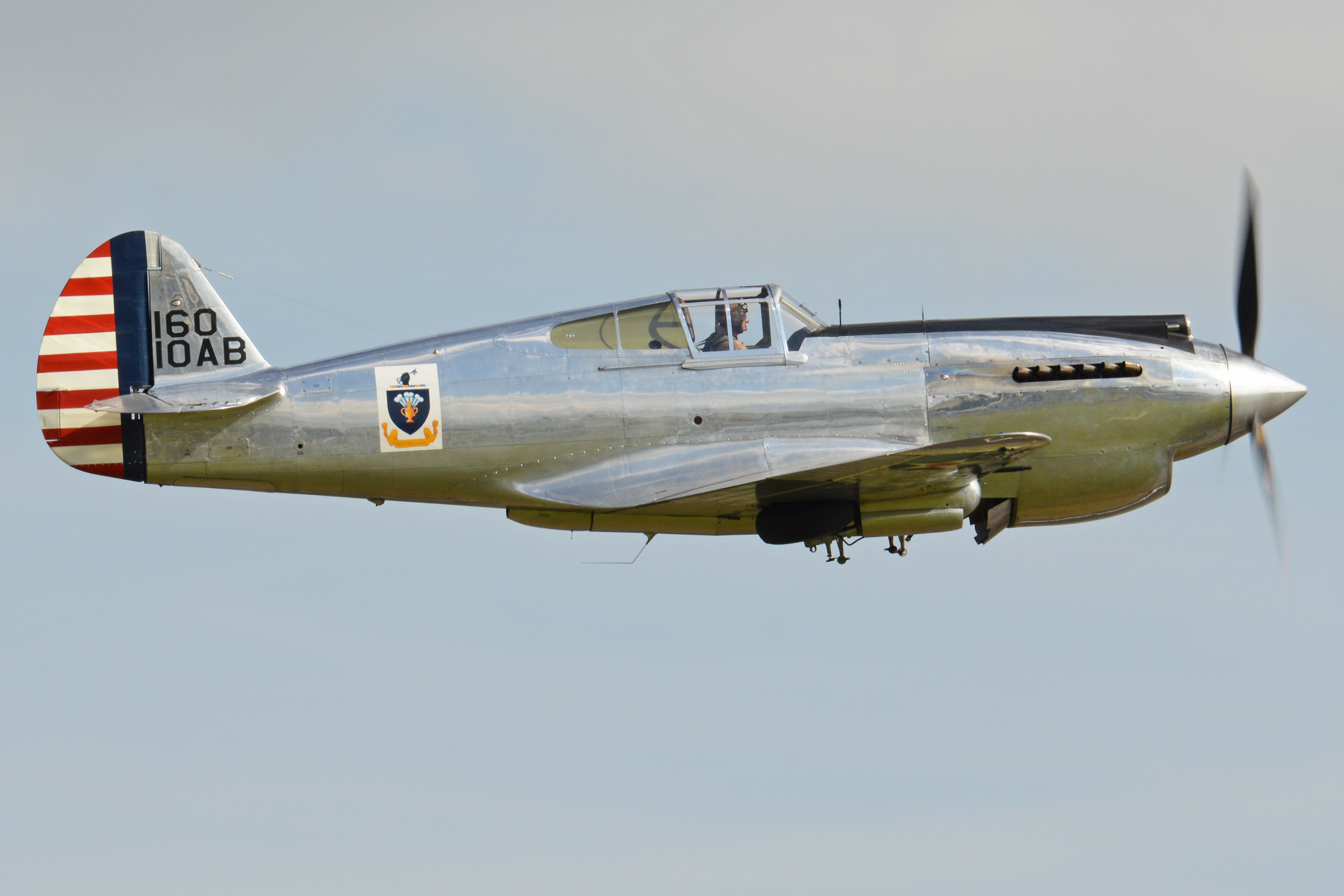 c/n 16161. Full US Military serial '41-13357'. Owned and operated by The Fighter Collection and seen during 2016 Flying Legends Airshow. Duxford Airfield, Cambridgeshire, UK. 10th July 2016.